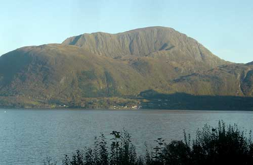 Eide and the mountain Harstadfjellet